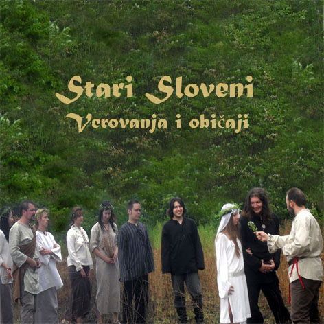 Cover image for documentary ,,Stari Sloveni - Verovanja i običaji" (Old Slavs - Beliefs and customs)